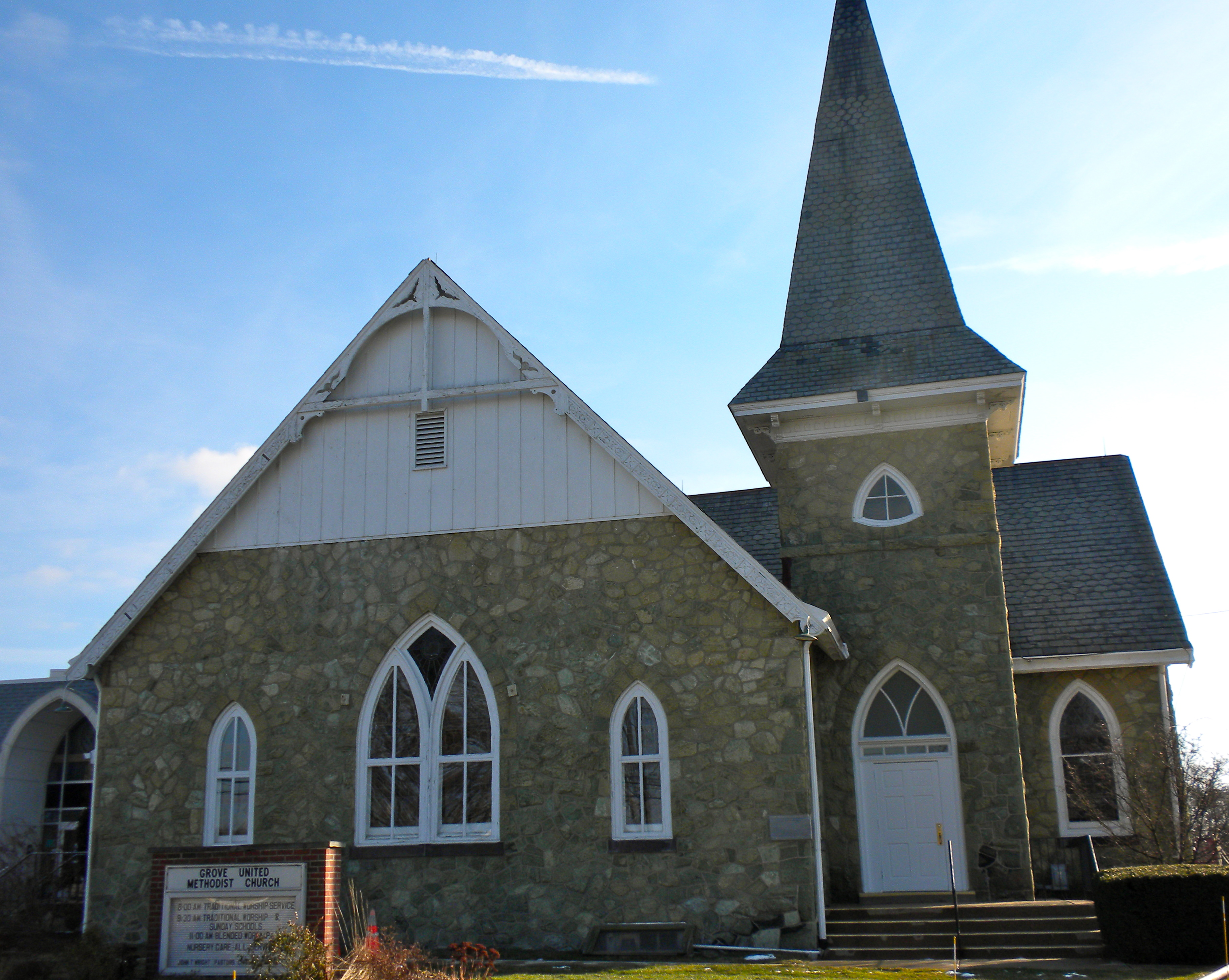 Grove United Methodist Church in NRHP Grove Historic District, on Boot Road, near Grove Road, north of West Chester, PA. I donate this photo to the public domain.